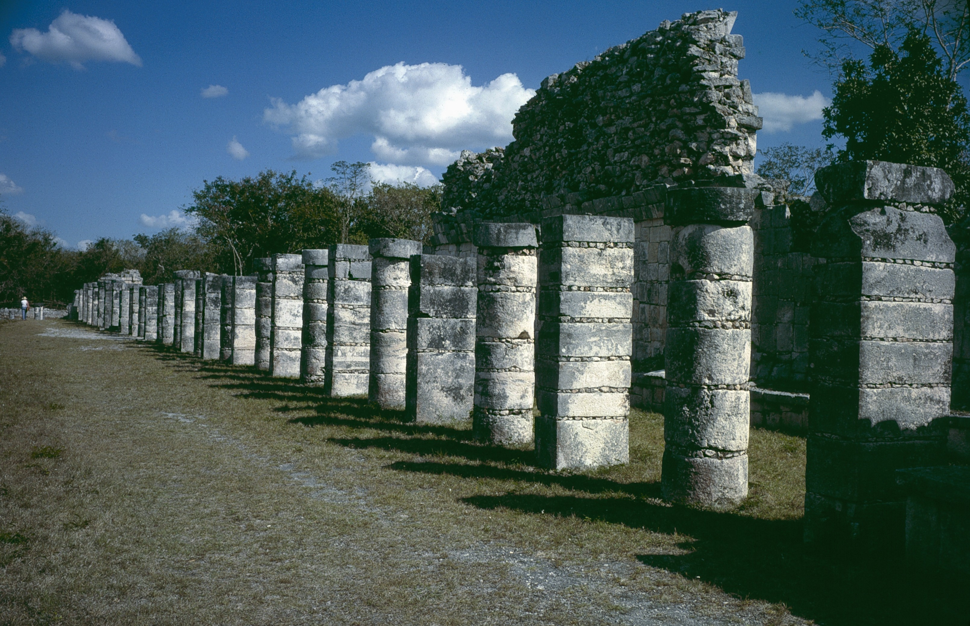 Chichen Itza,Yucatan, Mexico: Mercado, porticus